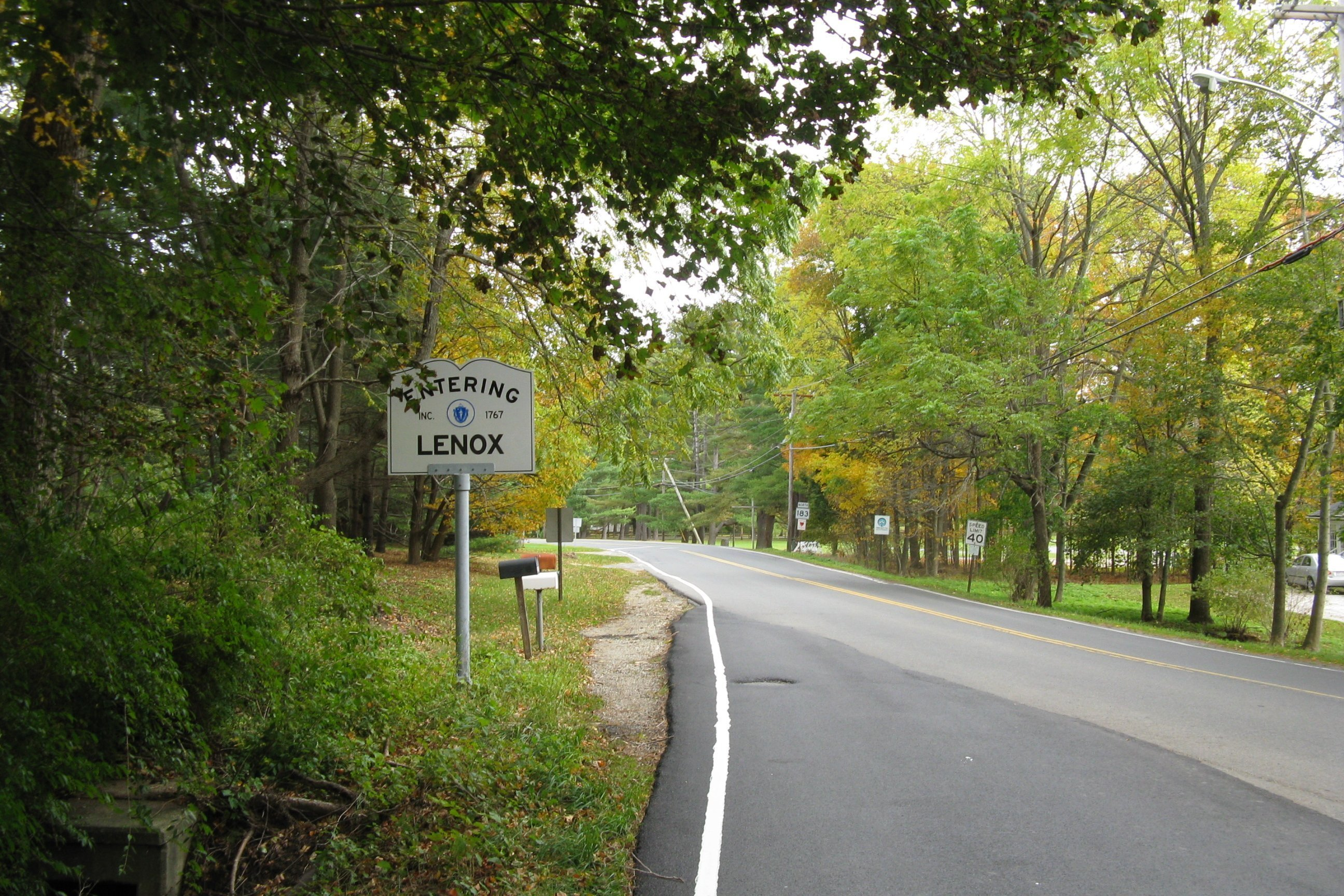 Massachusetts Route 183 Eastbound entering Lenox Massachusetts